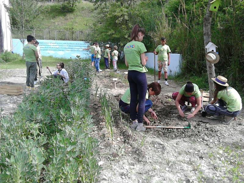 ortolani